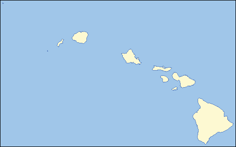 Locator Map of Hawaii, United States